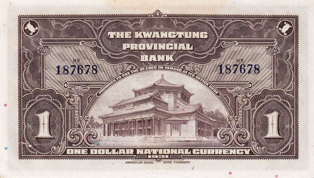 A provincial banknote issued by the Kwangtung Provincial Bank 🏦 to circulate in the Province of Guangdong, the Republic of China.